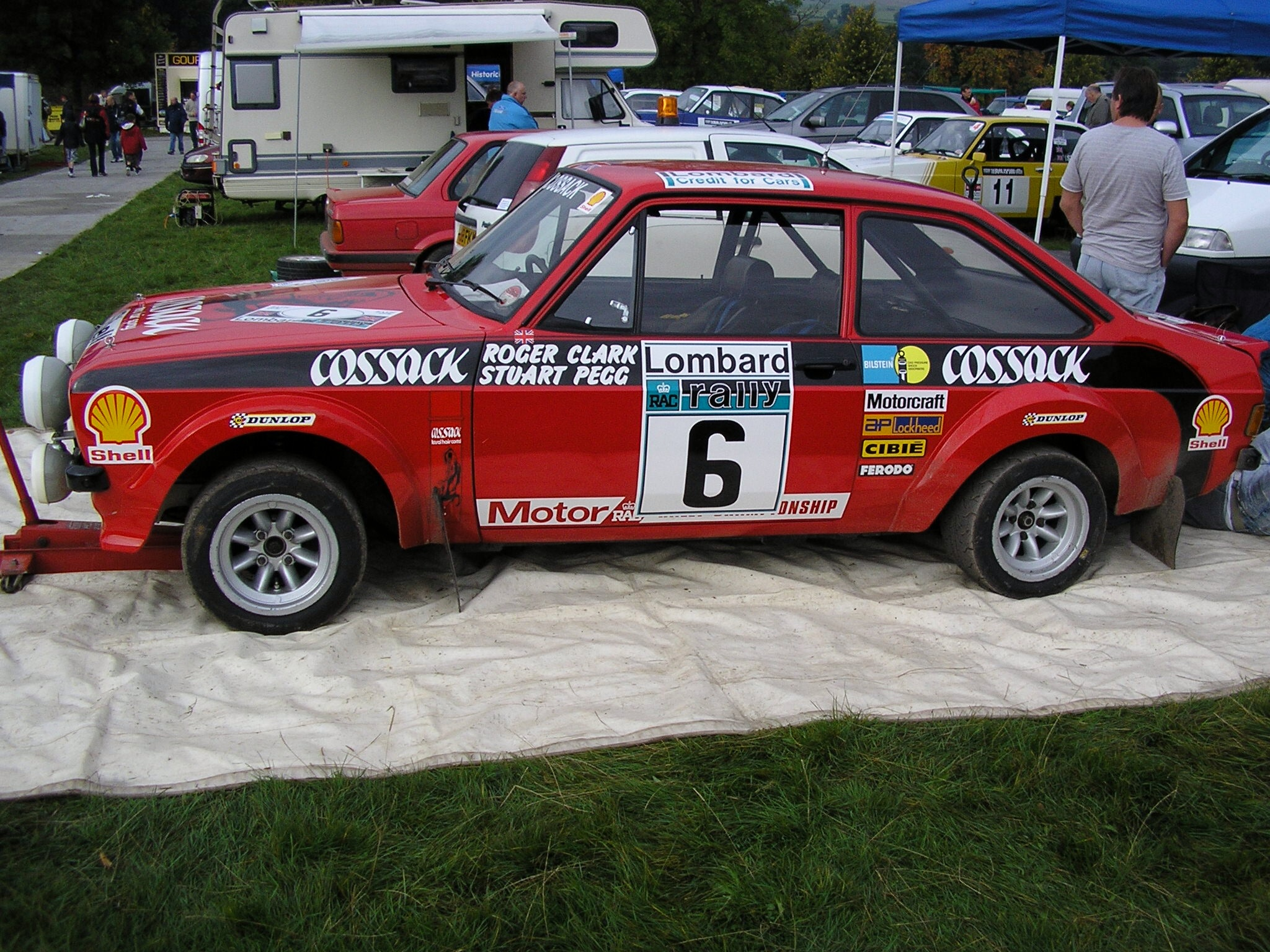 Roger Clark's Cossack sponsored Ford Escort RS1800, winner of the 1976 Lombard RAC Rally, pictured at the 2008 Rally Fest at Chatsworth House